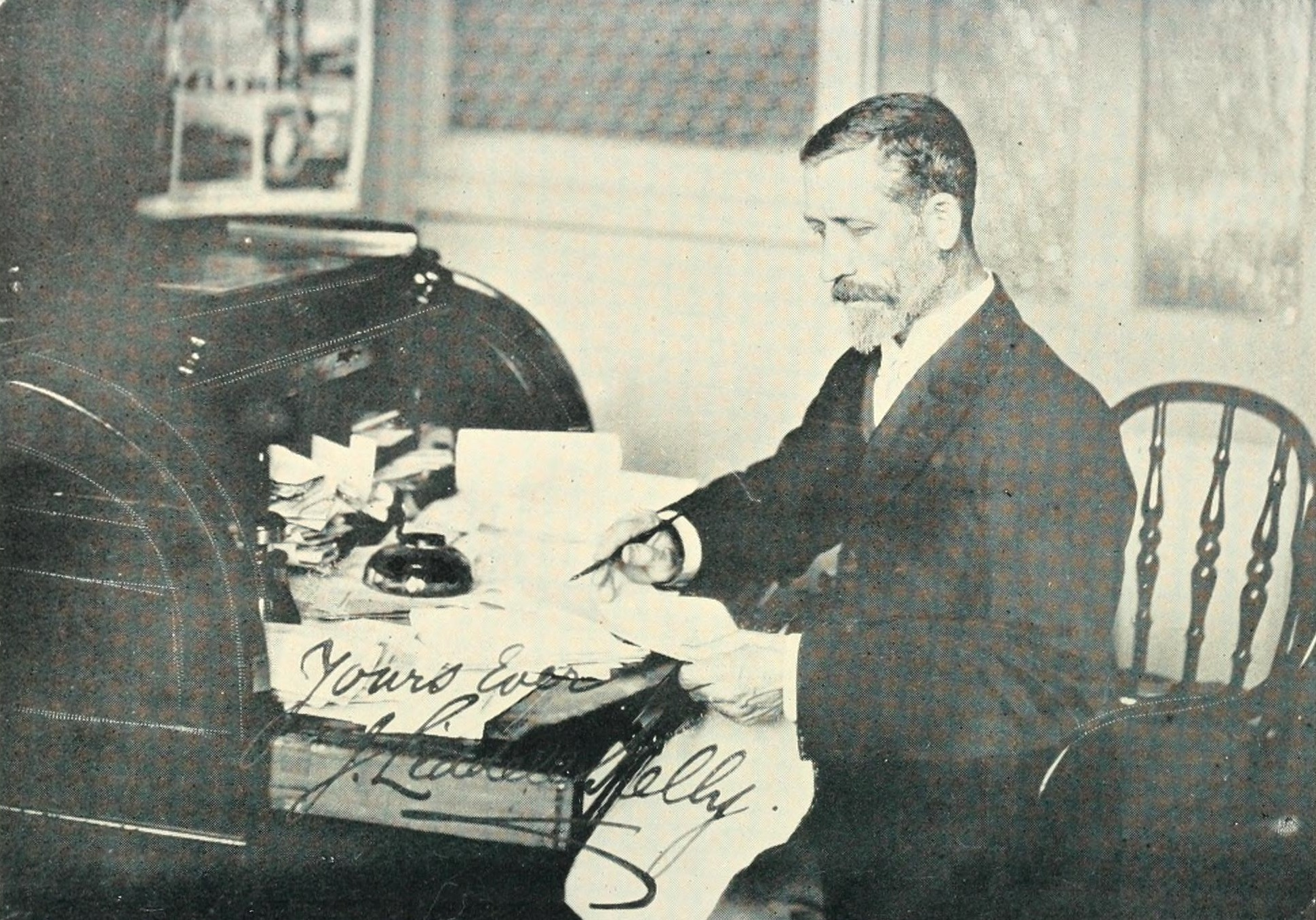 Portrait of John Liddell Kelly